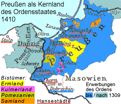 Prussia 1410, when the successful period of the Teutonic Order was ended by the Battle of Tannenberg, also called Battle of Grunberg